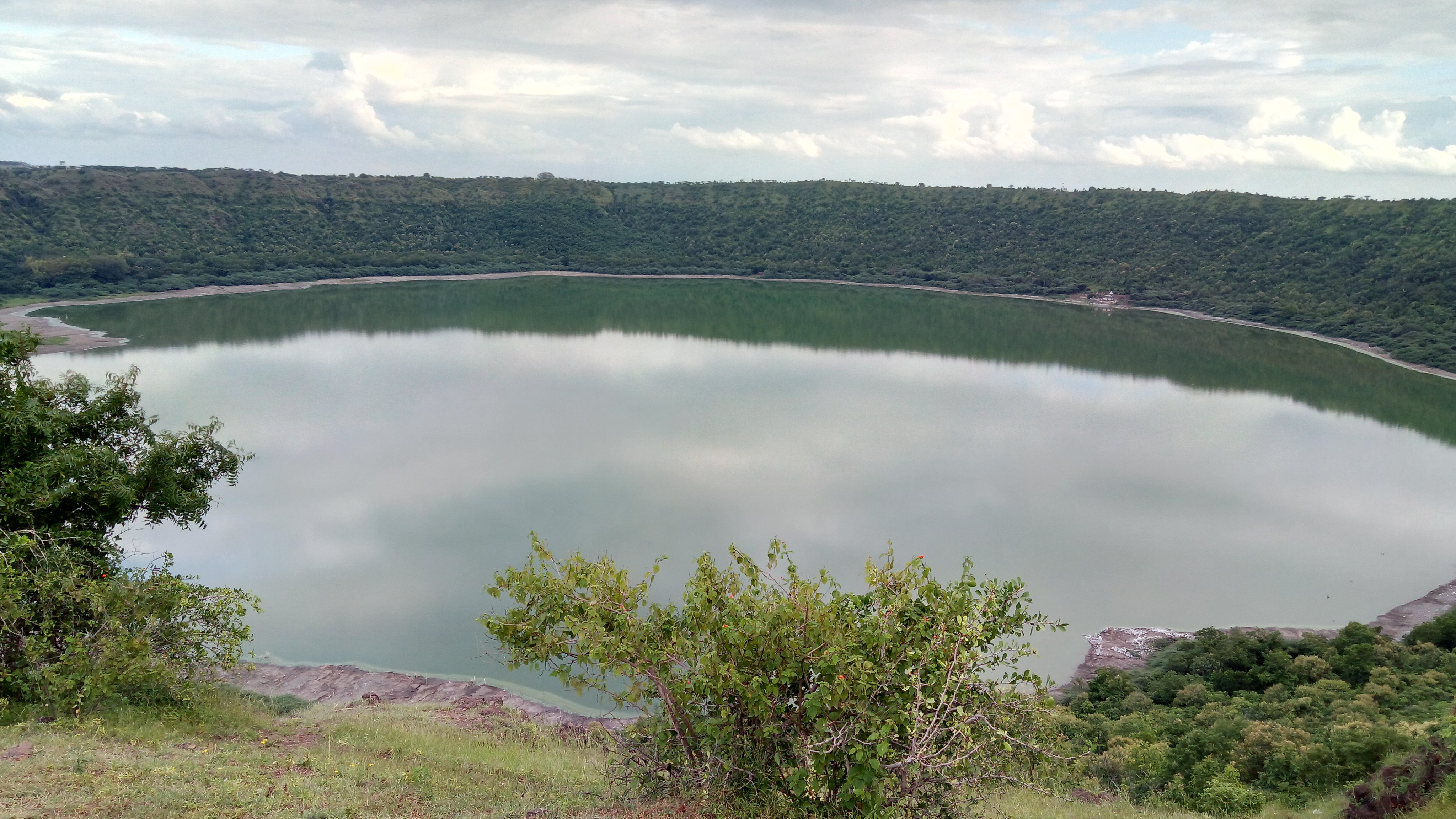 This huge dent is a crater lake formed by a meteorite impact 50,000+ years ago. Now, how significant are we?